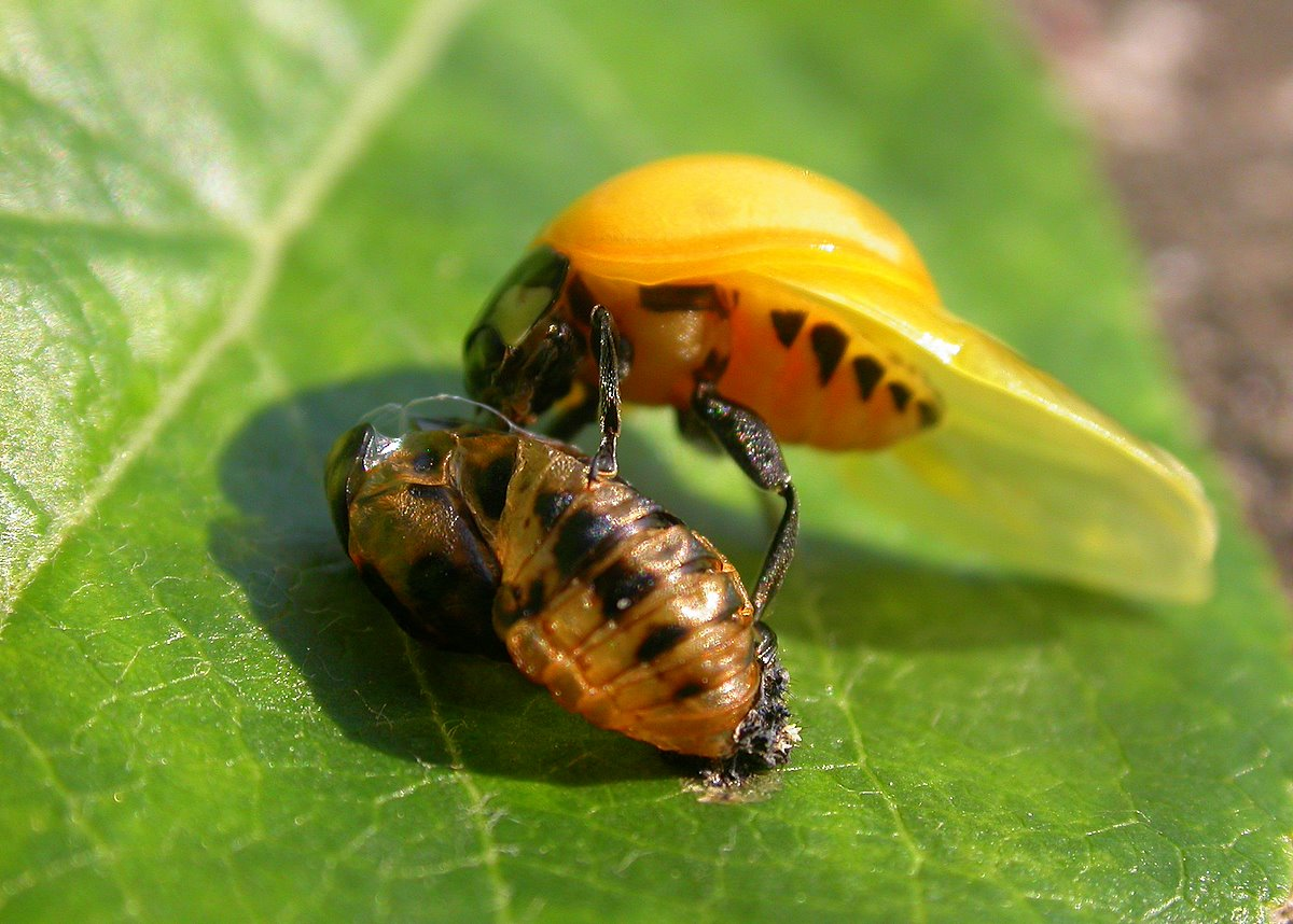 Coccinella septempunctata inflating it's wings shortly after emerging from the pupa.